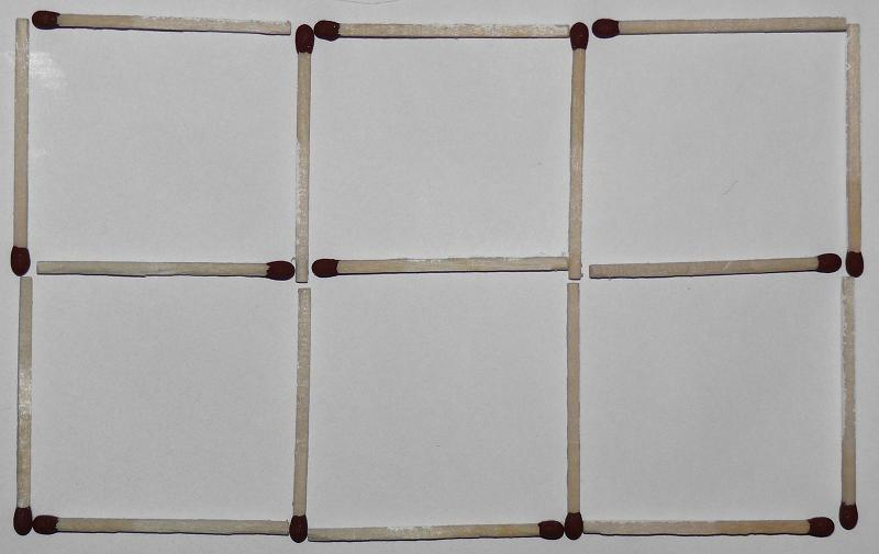 Match Quiz: remove five matches to have three squares